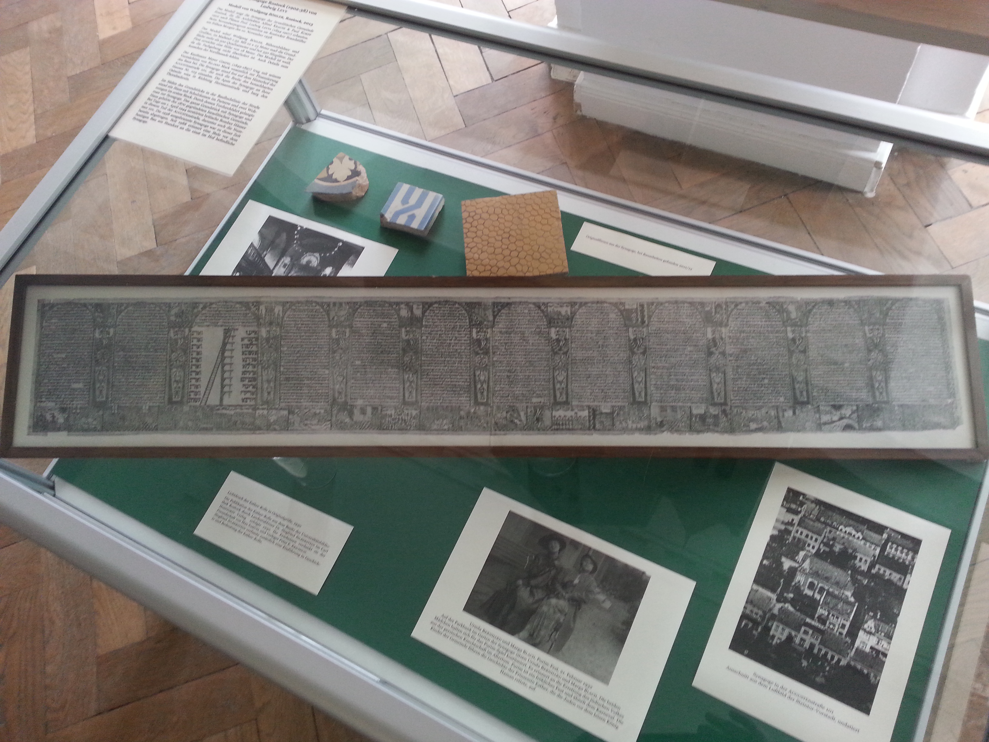 Reprint of the 1700s Megillath Esther from the Rostock University Library, reprint edited by Chief Rabbi Siegfried Schlomoh Silberstein in 1930, here in a show case in the Max-Samuel-Haus in the exhibition Juden in Rostock: Einst und jetzt (Jews in 800 years of Rostock) 17 October 2018 to 18 April 2019.